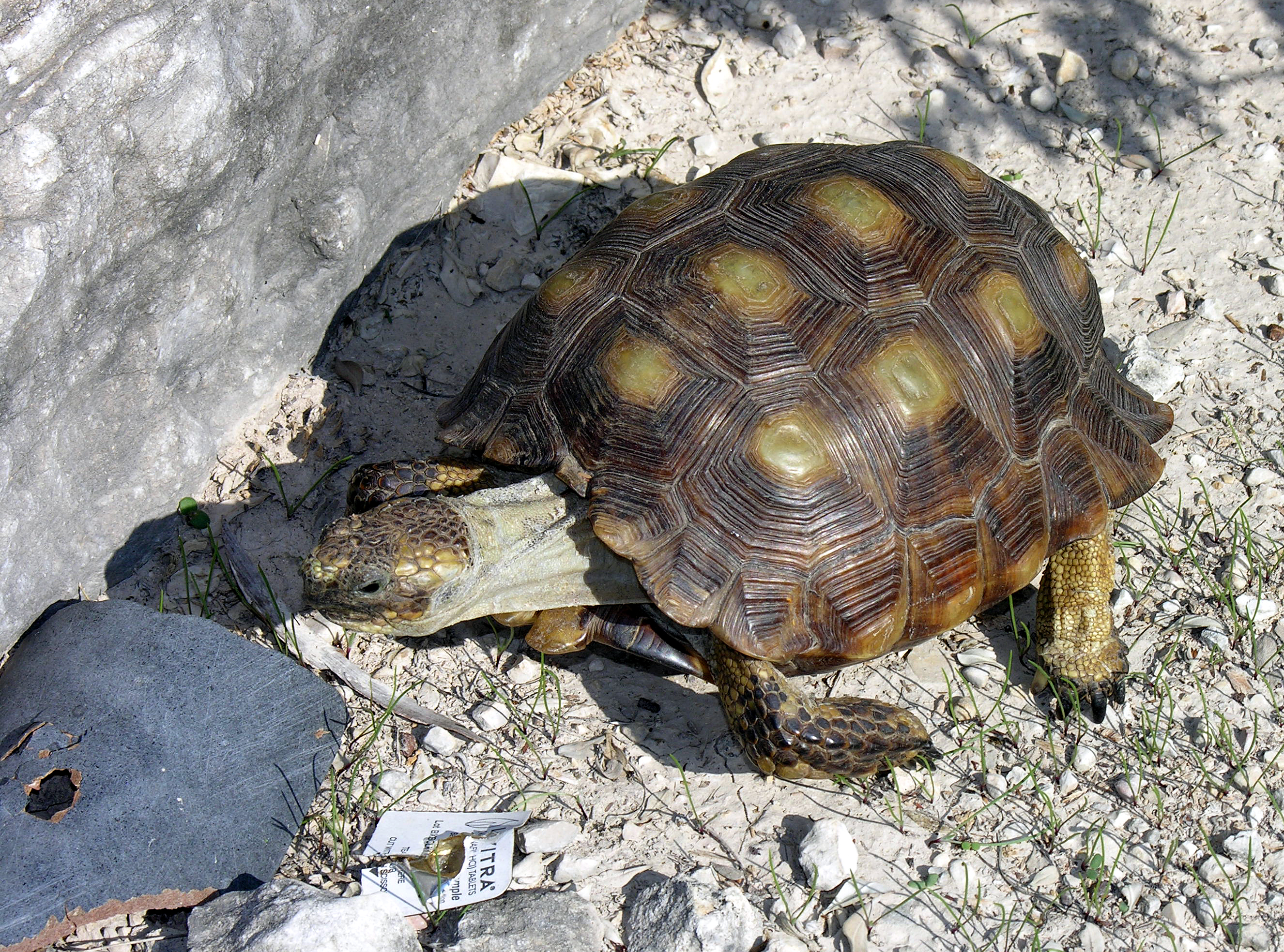 A low reproductive rate, historic heavy exploitation by pet suppliers, and other factors have led to a severe population decline of the species. This has resulted in its being listed in 1977 as a protected nongame (threatened) species, thus affording protection from being taken, possessed, transported, exported, sold, or offered for sale. Amistad Rec Area, San Pedro Campground road, Val Verde Co, Texas